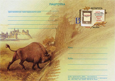 Postal stationery. Pre-Stamped Postcard of the Belarus. 485th Anniversary publication of Nikolai Gusovsky's poem "Song about Wisent". Stamp - Letter "B" (inland rate), multicolor. Designer - Nikolai Ryzhyi. Size - 148*105 mm. Order number - 136к-2008. Print quantity - 100000.